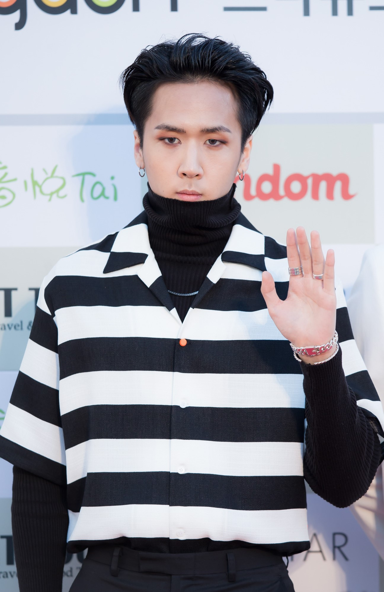 Ravi at Gaon Chart K-pop Awards red carpet, on February 17, 2016.